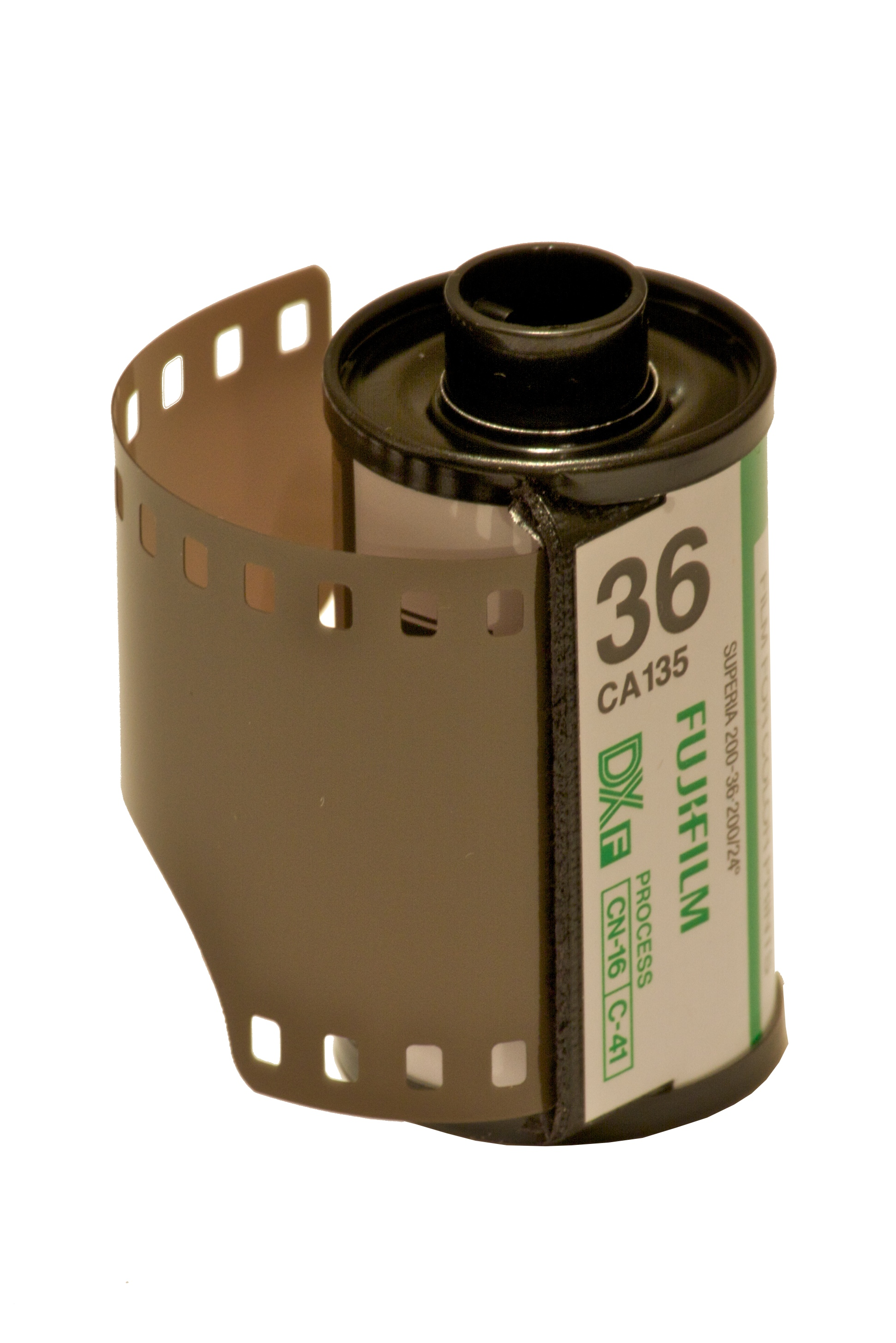 Fujifilm Fujicolor Superia 200.